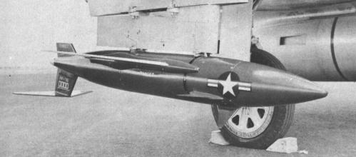 Photograph of the RP-76/AQM-38A target drone, mounted for launching on a pylon aboard a Northrop F-89 Scorpion aircraft.